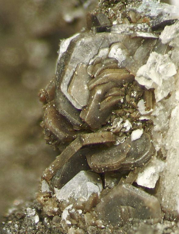 Locality: Poudrette quarry (Demix quarry; Uni-Mix quarry; Desourdy quarry; Carrière Mont Saint-Hilaire), Mont Saint-Hilaire, La Vallée-du-Richelieu RCM, Montérégie, Québec, Canada FOV 2.3 x 2.9 mm. Found Sept 1994. MOB coll. Resinous brown synchysite-(Ce).